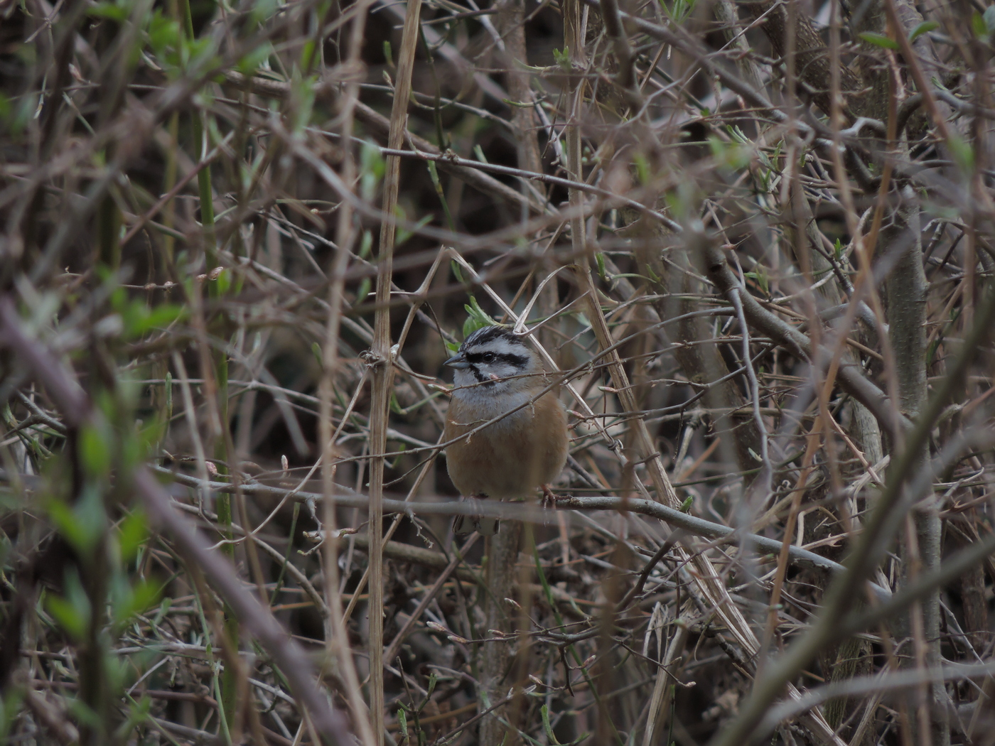 Srpski naziv strnadica kamenjarka Opis vrste D.t. 15-16,5cm. Rasprostranjena je u brdsko planinskim predelima južne i manjeg dela centralne Evrope, severozapadne Afrike, male Azije, Bliskog Istoka, Kavkaza i istočnog dela himalajskog platoa. U zimskom periodu, veliki deo ptica iz planinskih predela spušta se u ravničarske predele. Naseljava strma i otvorena brdska i planinska staništa sa kamenjarima, liticama, travama i retkim drvećem i žbunjem na različitim nadmorskim visinama. Gnezdo smešta na tlo, skriveno među kamenjem i vegetacijom. Hrani se pretežno semenjem različitih vrsta biljaka i beskičmenjacima. U Srbiji je redovna gnezdarica klisura i kamenjara u brdsko-planinskom delu zemlje. Gnezdeća populacija u Srbiji se procenjuje na 3.000 - 4.000 parova (Puzović et al 2009). Status zaštite vrste IUCN crvena lista - Kategorija LC; Ptice od posebnog značaja za zaštitu u Evropi: SPEC 3; Konvencija o očuvanju evropske divlje flore i faune i prirodnih staništa - Annex I; Pravilnik o proglašenju i zaštiti strogo zaštićenih i zaštićenih divljih vrsta biljaka, životinja i gljiva: Prilog I Strogo zaštićene divlje vrste biljaka, životinja i gljiva